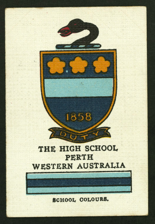 Cigarette Card collector series featuring Crests and colours of Australian Universities, colleges and schools: Hale School.